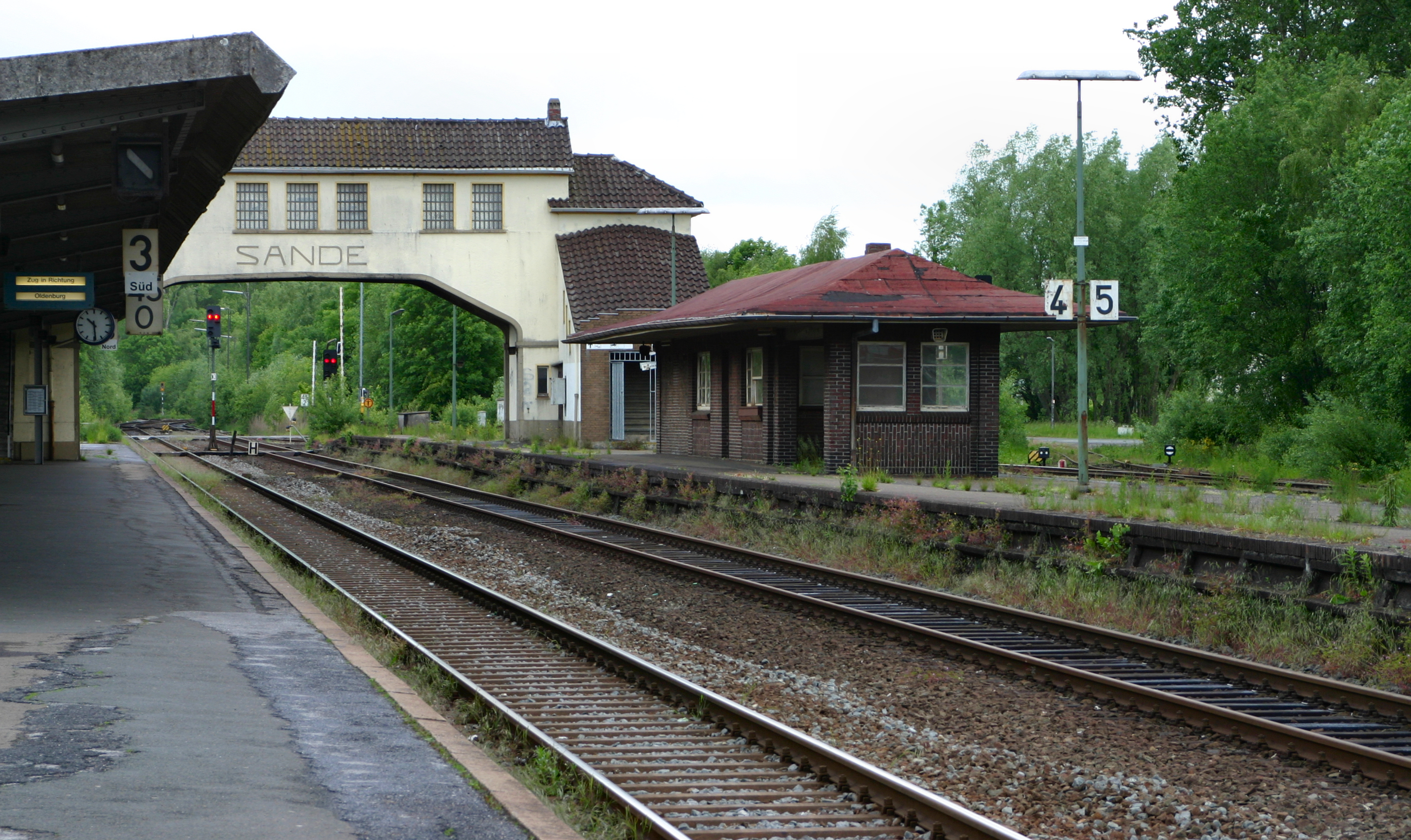 Train station in Sande, Frisia